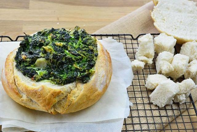 A cob loaf containing spinach dip